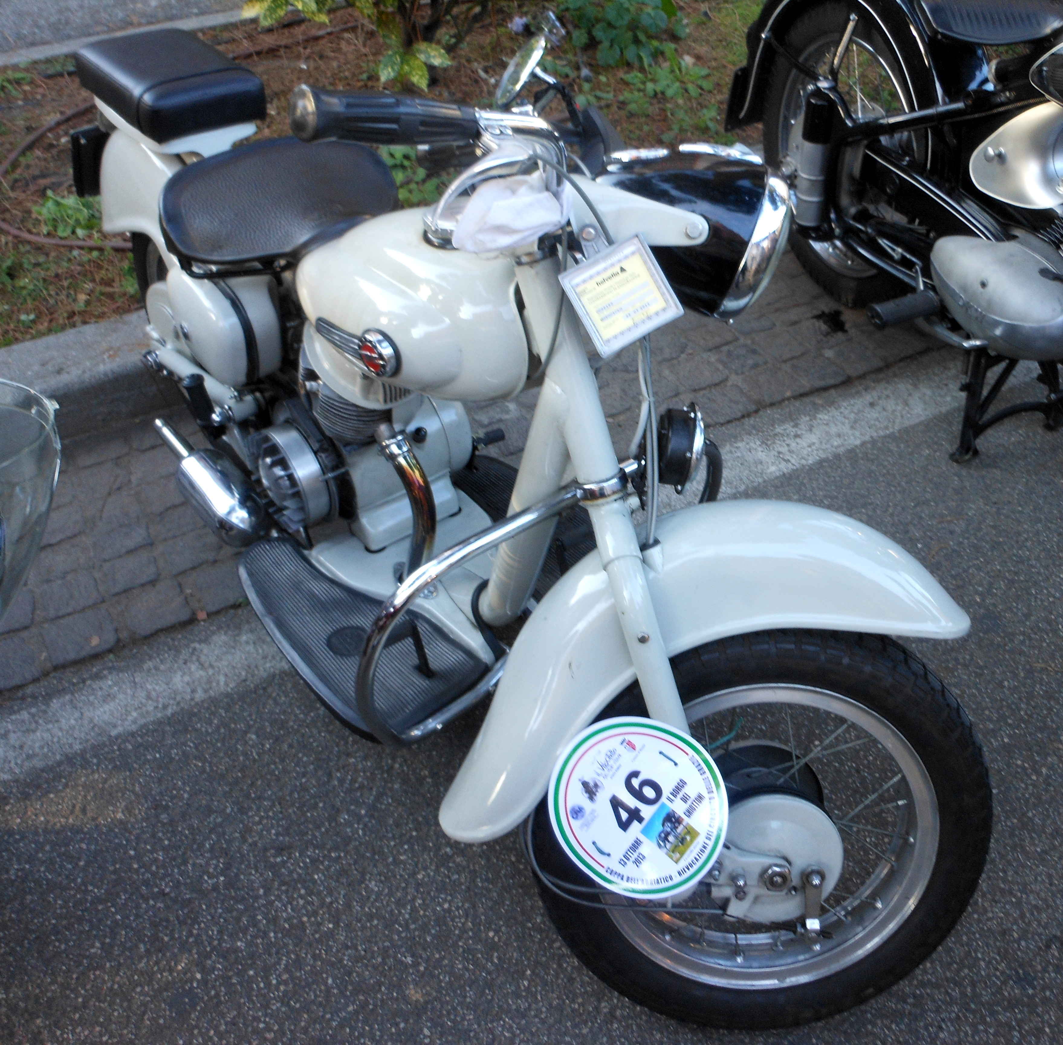 A Motom Delfino in Rimini